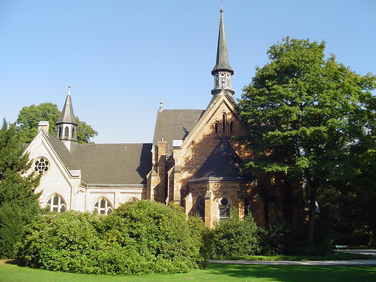 Nordfriedhof cemetery, Düsseldorf, Germany